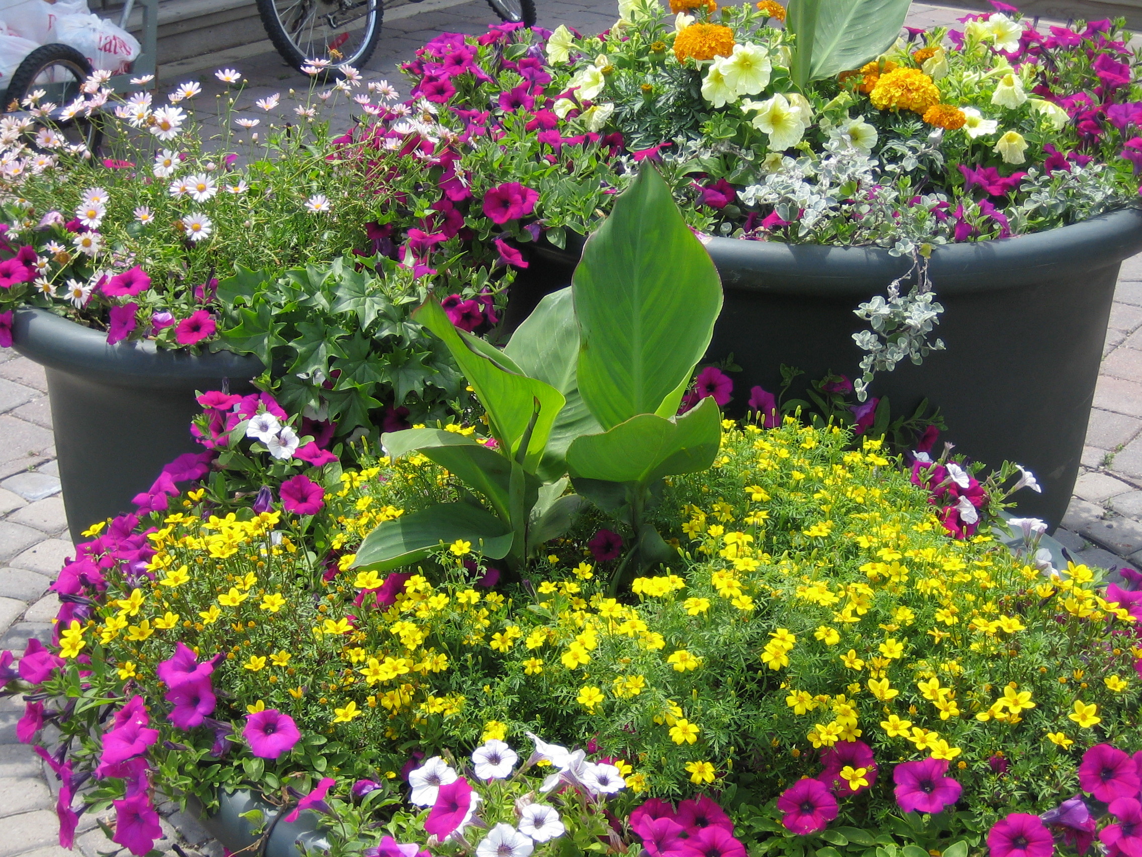 A container garden of petunias, daisies, marigolds and other flowers in large plastic planters.